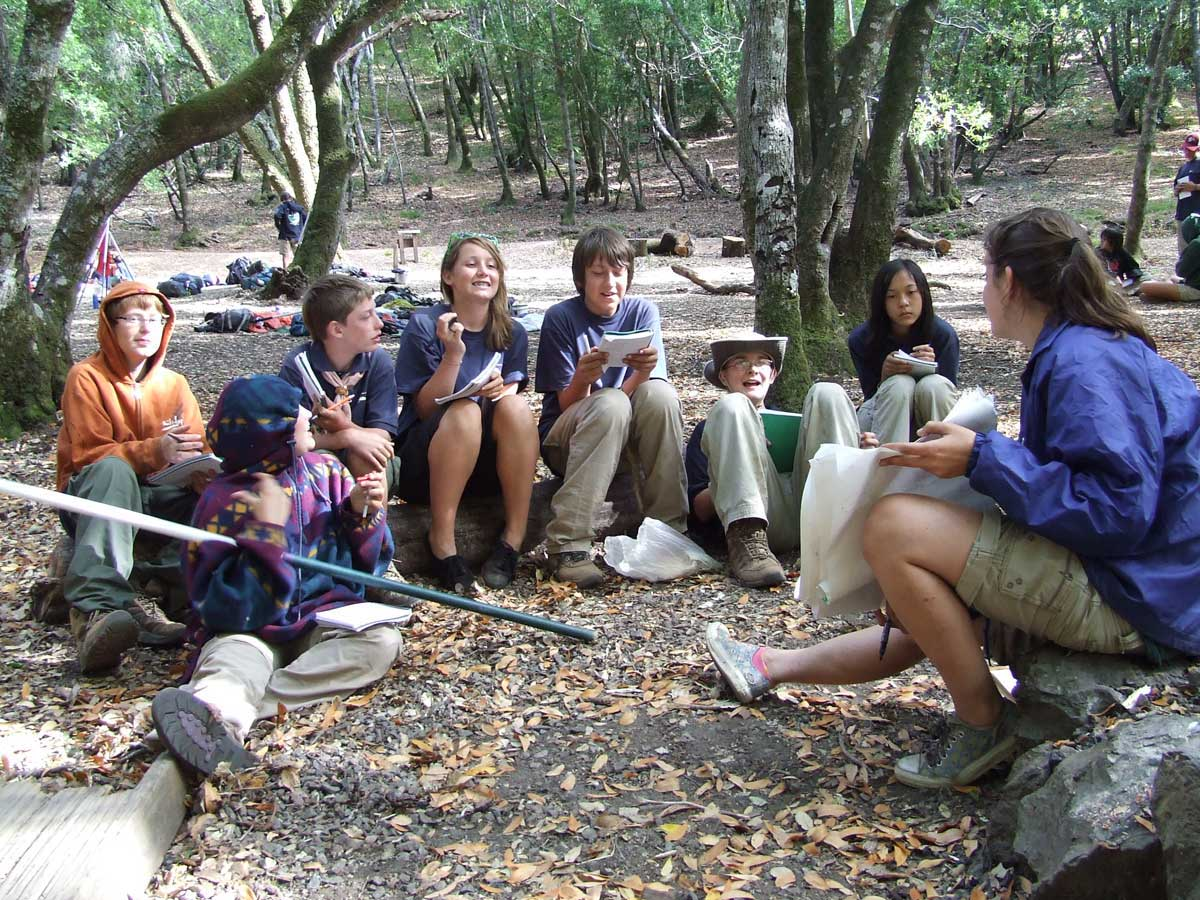 White Stag candidates at Camp Tamarancho, in Marin County, California in a competency session during an overnight hike.